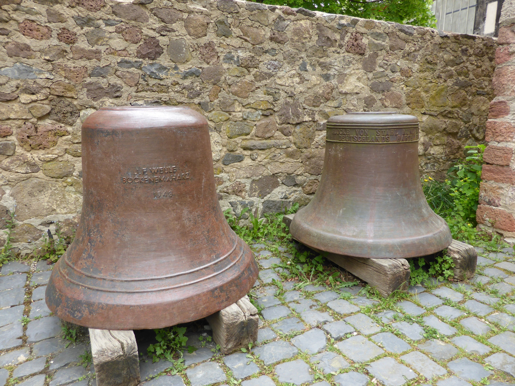 Cast iron bells of two different foundries